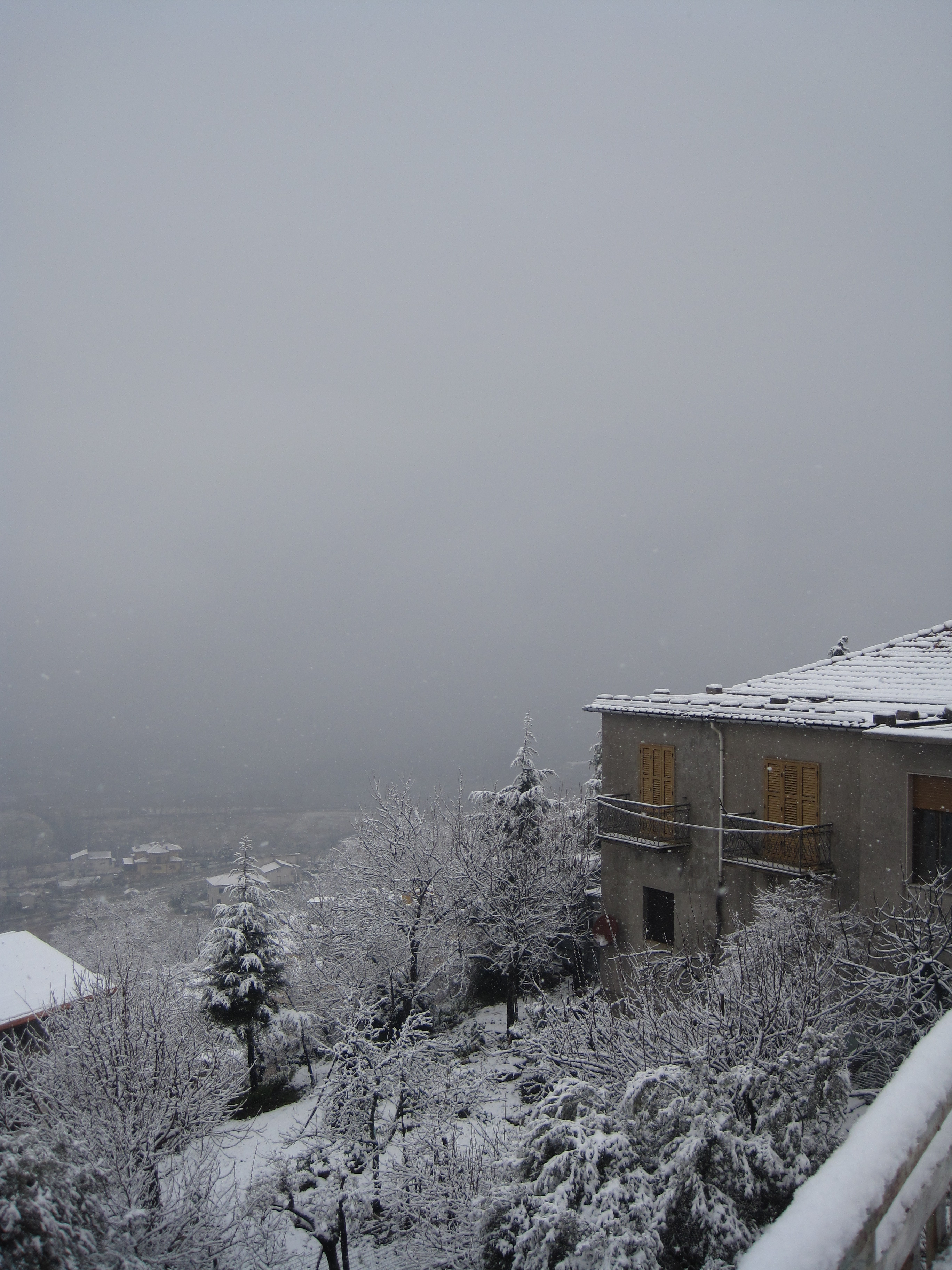 View from via Serra, in Bagnoli Irpino, Italy, on january 2011.